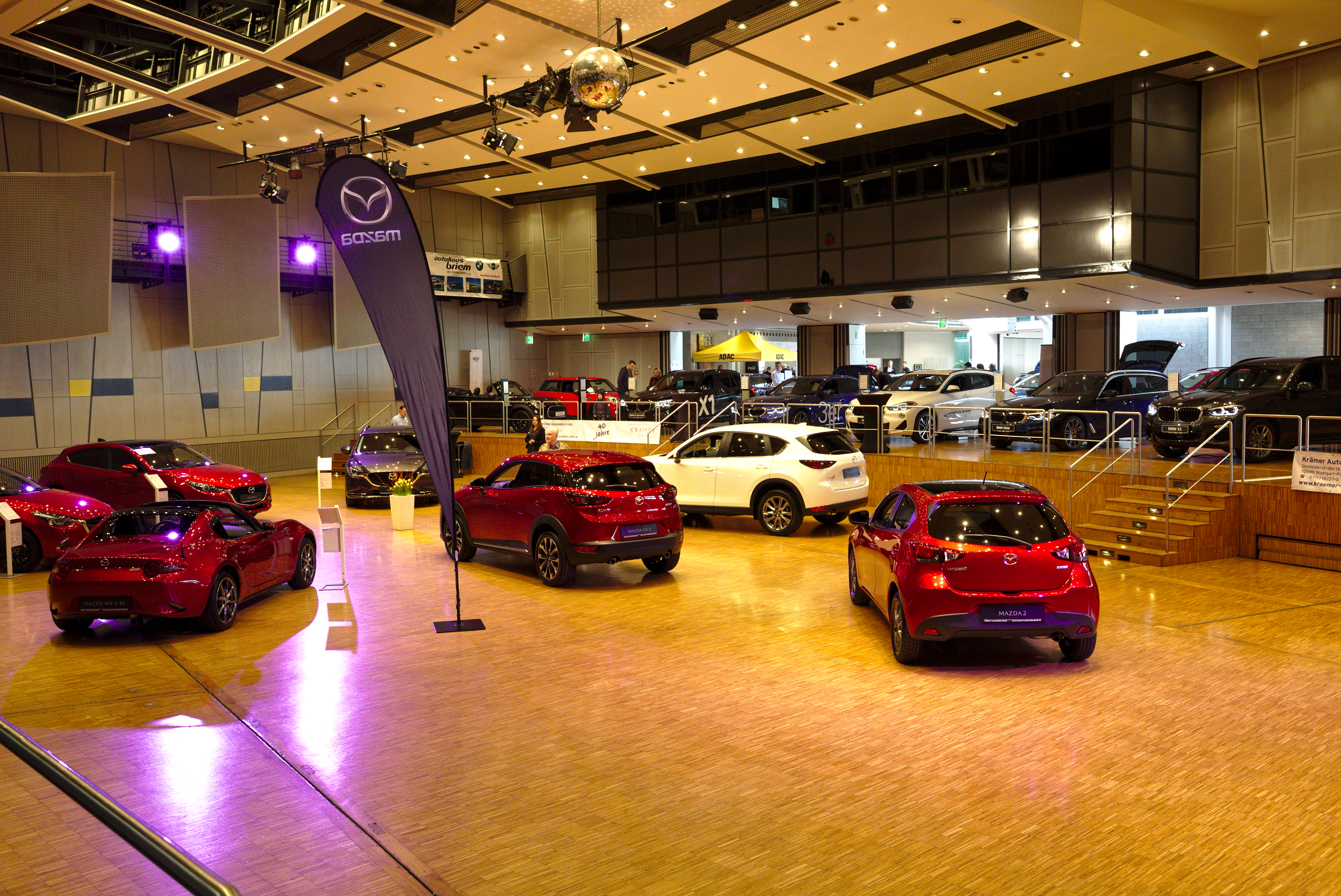 Mazda and BMW at Autosalon Filderstadt 2019